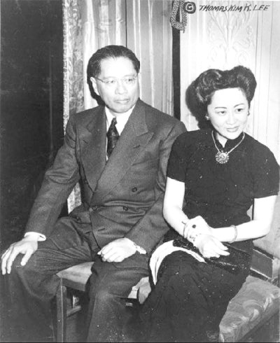 1940 TV Soong and wife. 宋子文的夫人张乐怡和宋子文